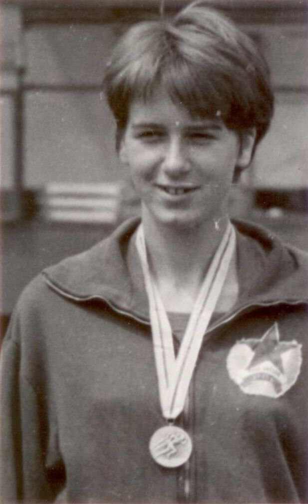 Czechoslovak athlet Jaroslava Valentová